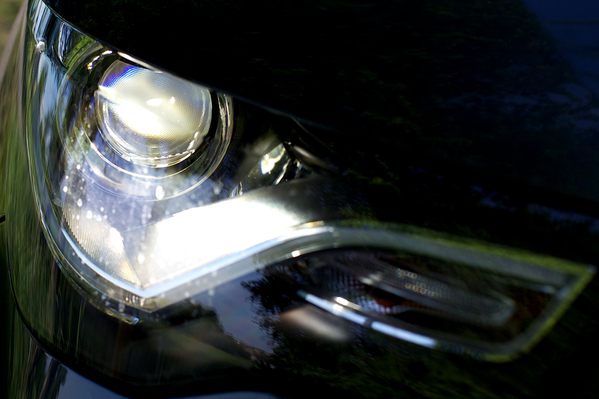 Xenon light of an Audi A1